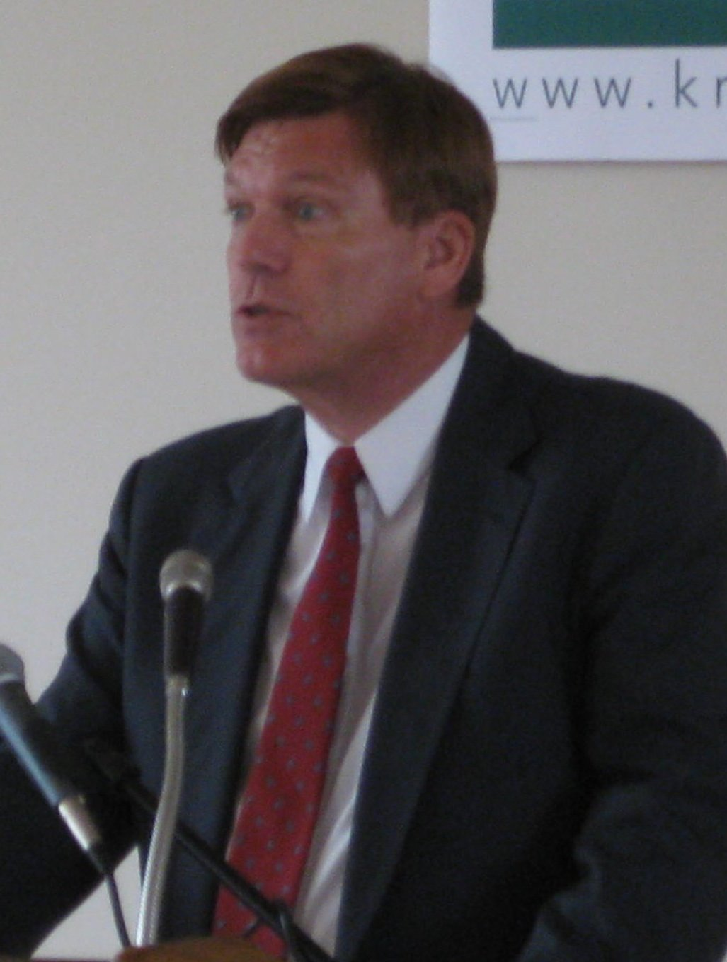 Democrat Bob Krause announces his U.S. Senatorial bid against Sen. Chuck Grassley in Des Moines. March 28, 2009.